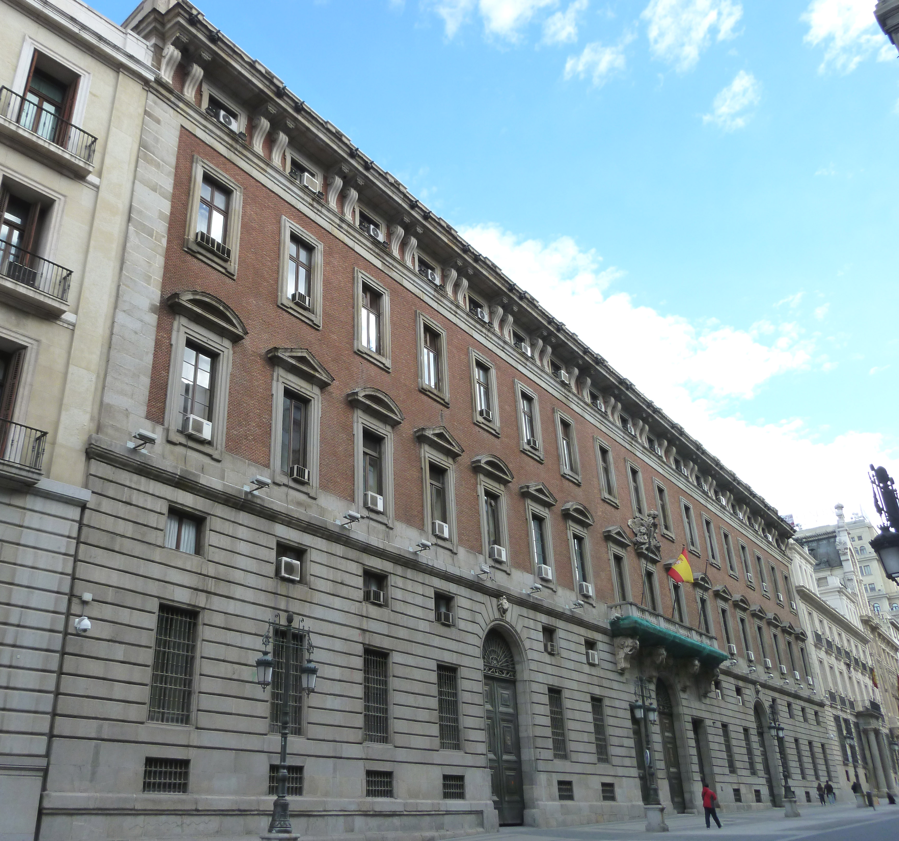 South façade of Real Casa de la Aduana in Madrid (Spain).